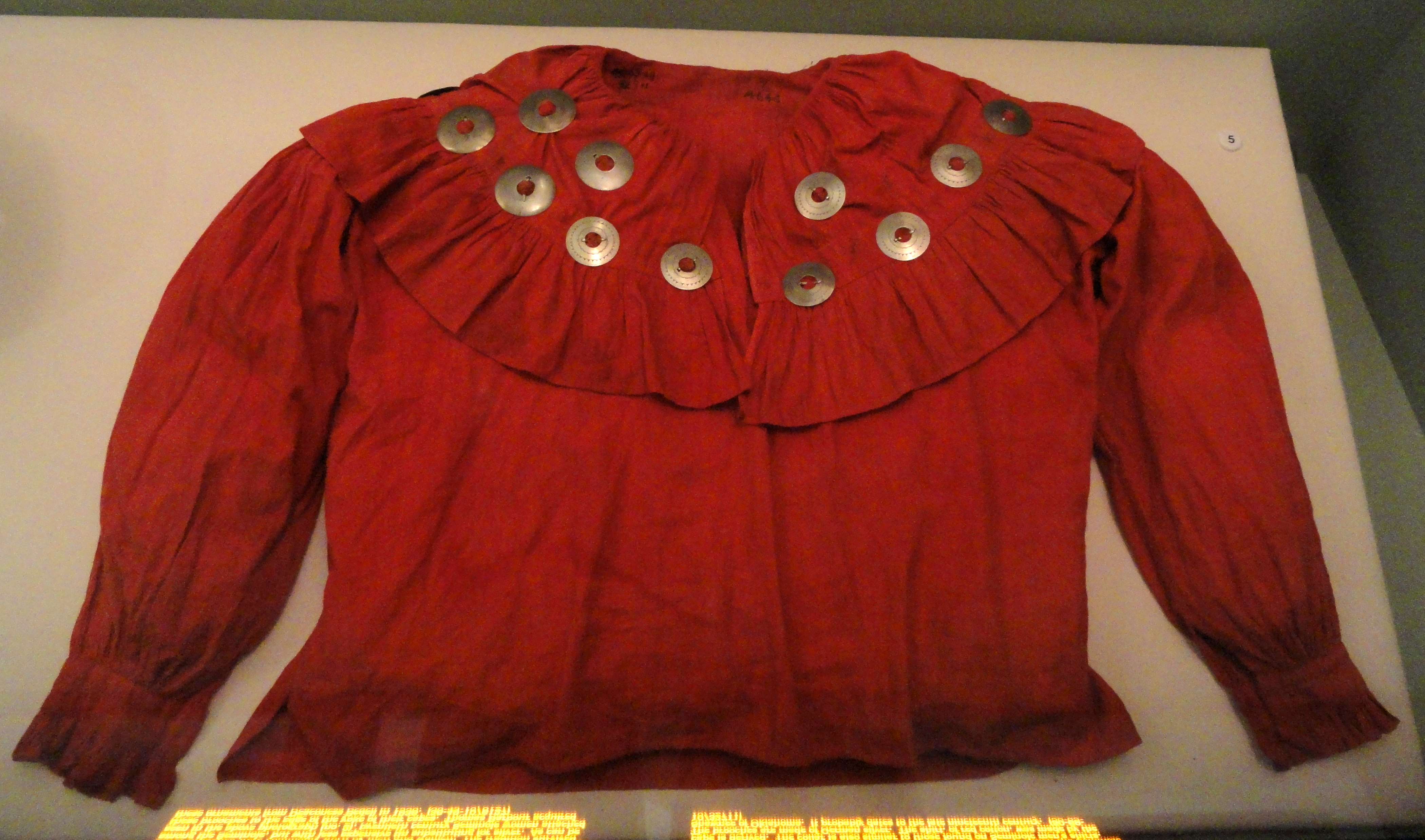 Blouse, Shawnee, Oklahoma, probably late 19th century. Exhibit from the Native American Collection, Peabody Museum, Harvard University, Cambridge, Massachusetts, USA. Photography was permitted without restriction; exhibit is old enough so that it is in the public domain.